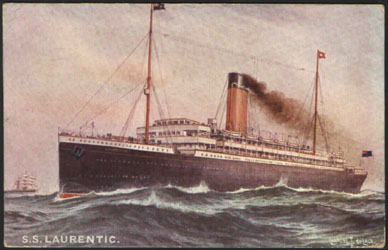 The White Star Liner Laurentic (1909)